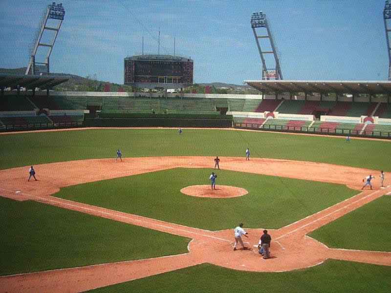 Calixto Garcia Stadium